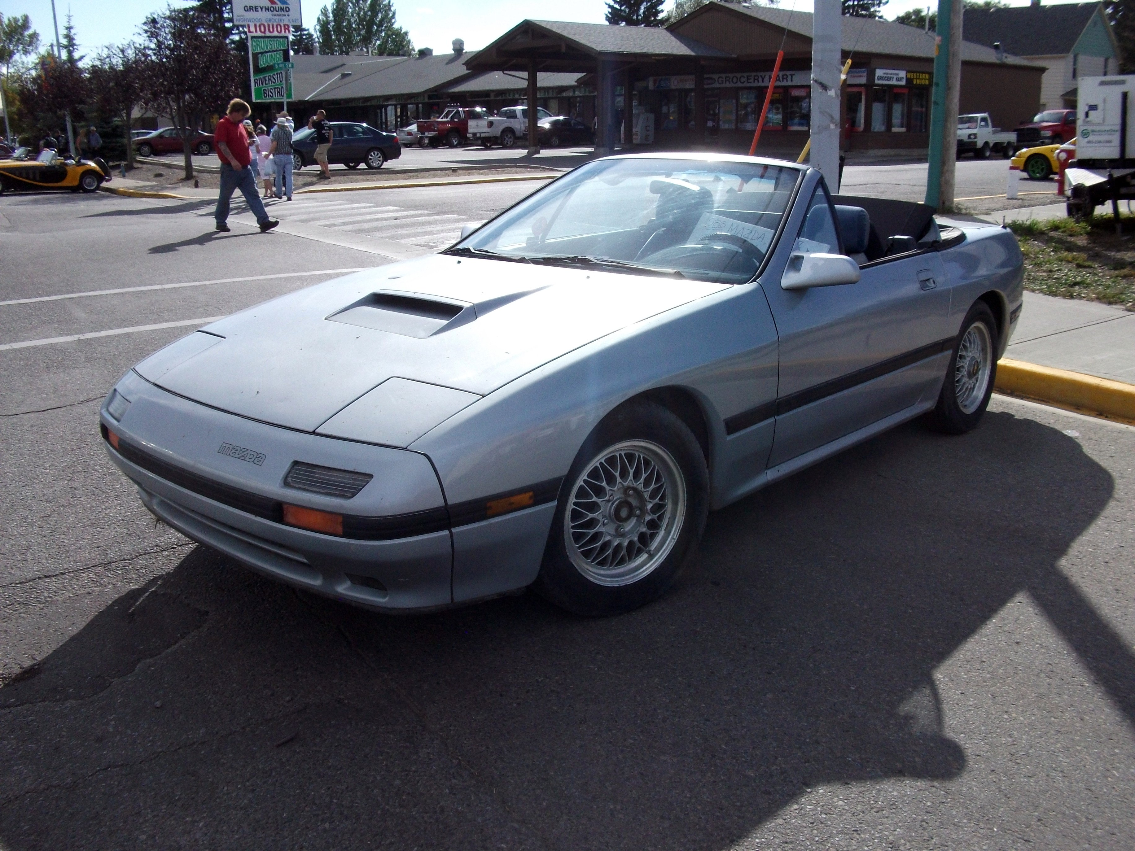 Second generation Mazda Rx-7 in convertible form.